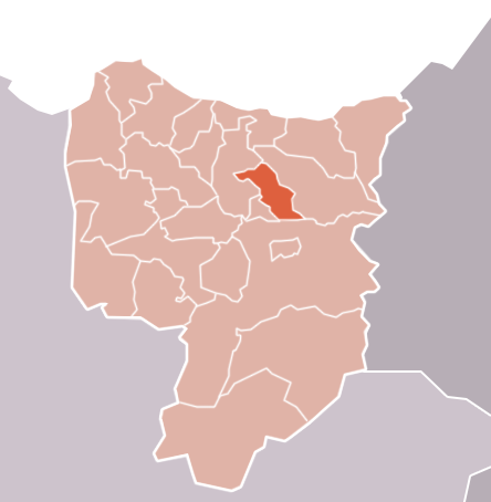 Ouardana